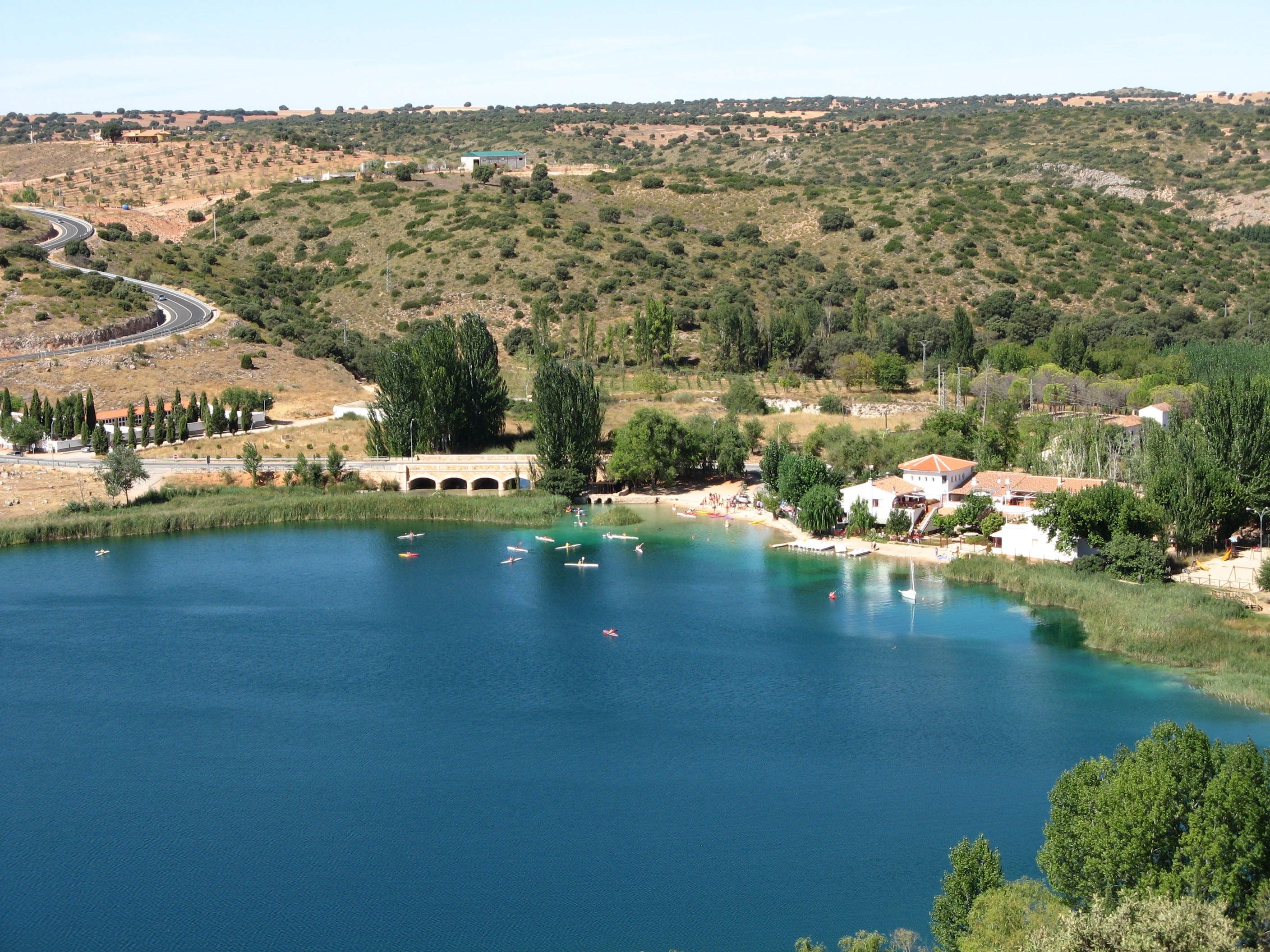 Ruidera. Laguna del Rey in front of the N430 towards Manzanares. Ruidera is on the right. Provincia de Ciudad Real, Castilla-La Mancha, España.